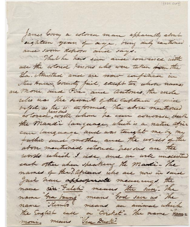 First page of the deponent James Covey, himself a man of color, testifying concerning the captives of the Amistad held in the New Haven, Connecticut, jail. Courtesy of the Baldwin Family Papers, Yale University Manuscripts & Archives Digital Images Database, Yale University, New Haven, Connecticut.